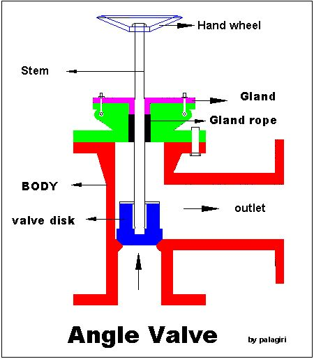 Globevalve angle vlave